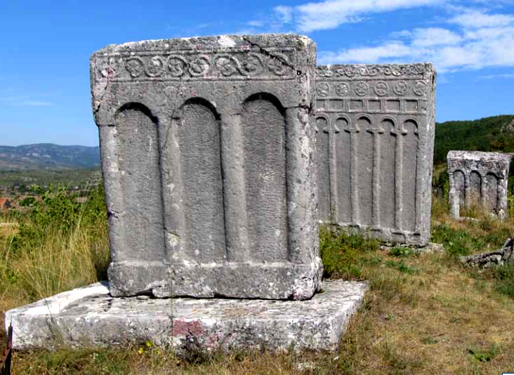 Stećci near Saint Jovans church in Velimlje, Municipality of Nikšić (Montenegro).